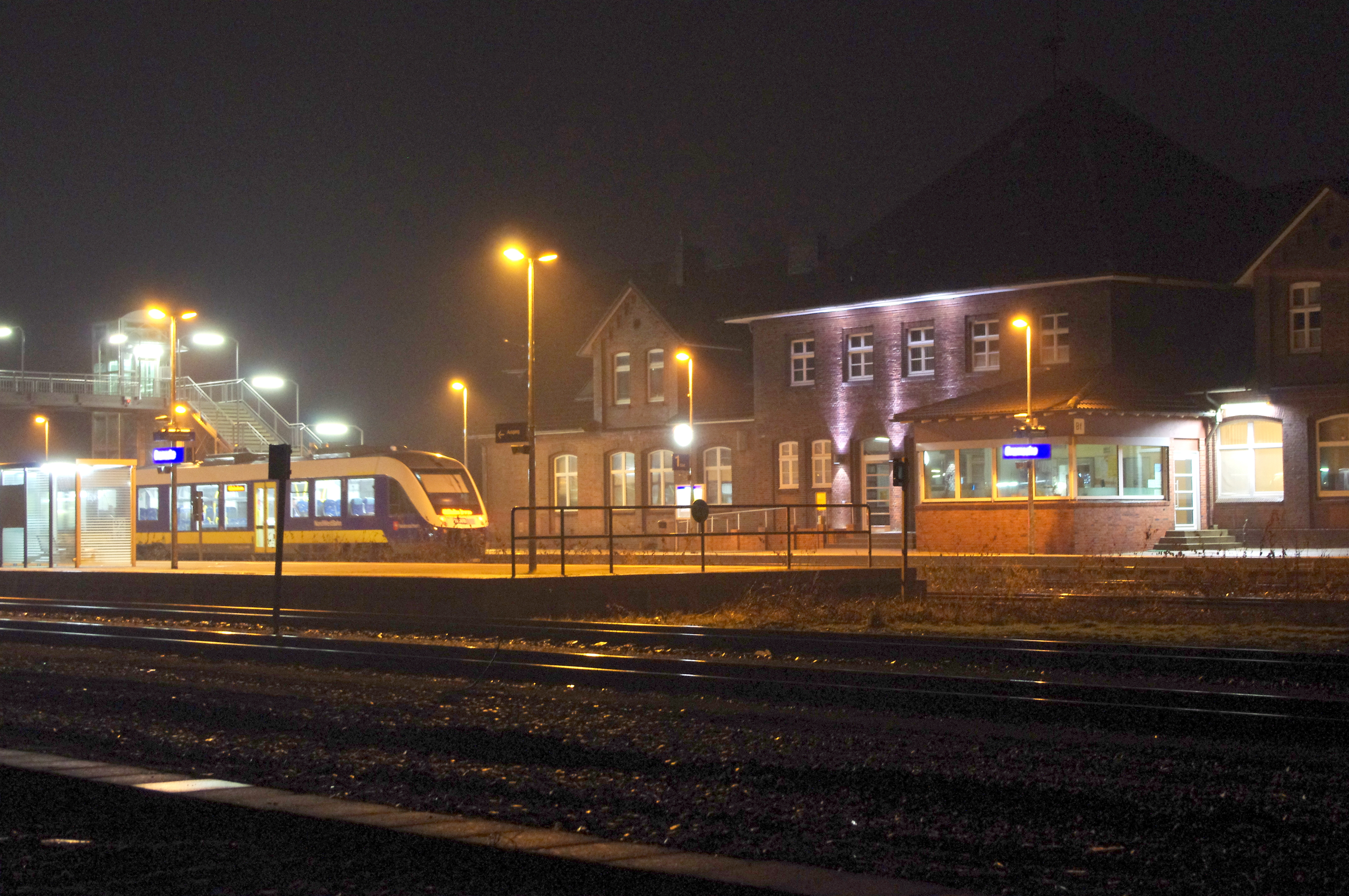 Train Station Bramsche with train by night, Germany